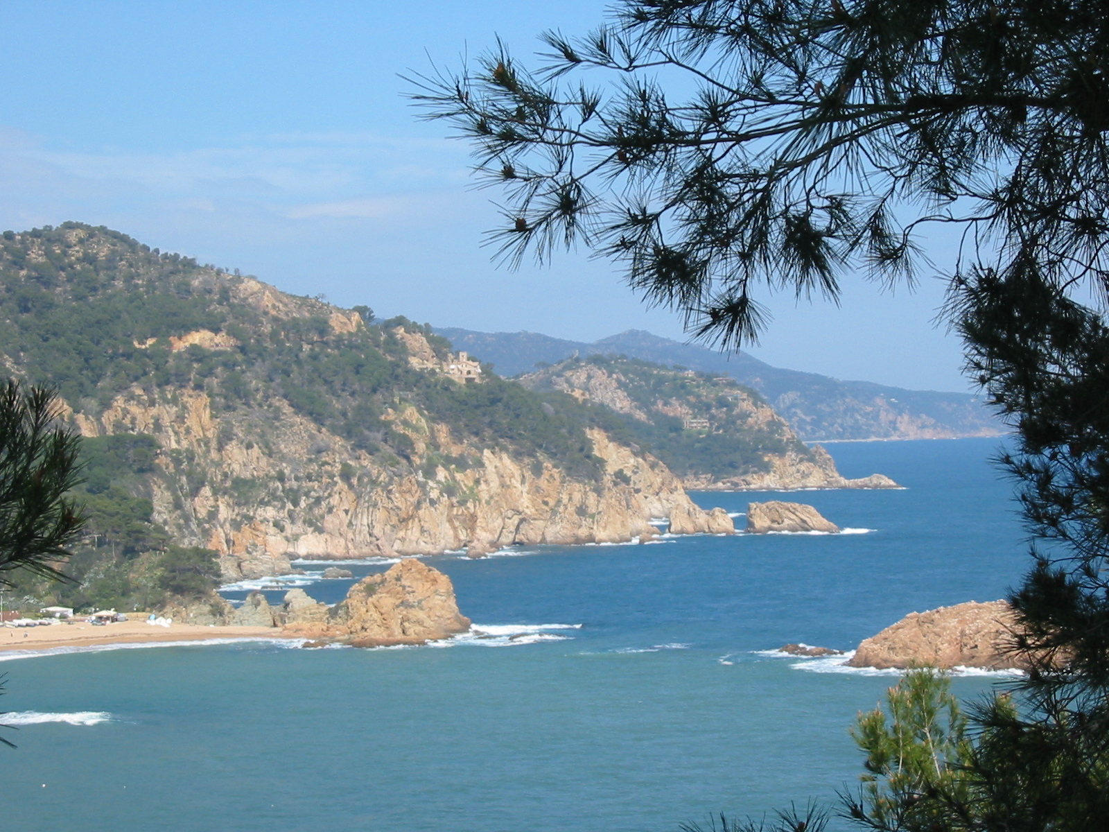 Costa Brava, Catalonia: Lookout to rocks and beaches between Sant Feliu de Guixols and Tossa de Mar